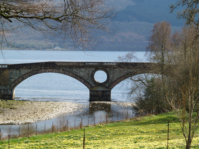 Bridge over the Aray taken from the castle grounds